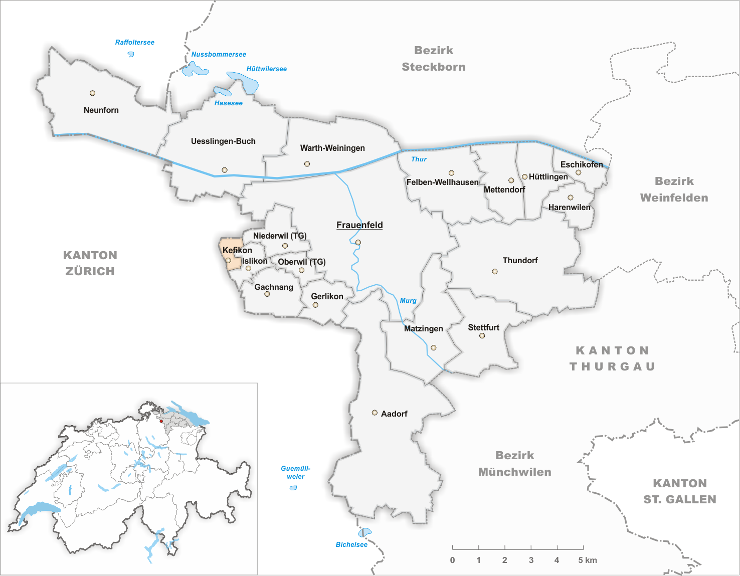 Municipality Kefikon